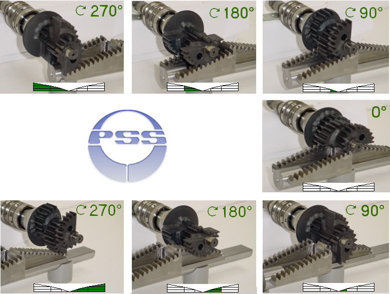 PSS-Steering (Progressive Safety Steering) The functionality of PSS-Steering from impact to impact 1 1/2 steering revolution